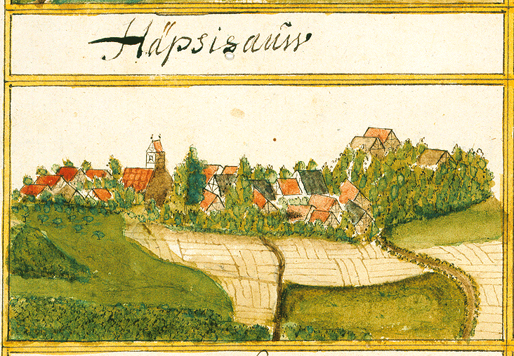 View of Hepsisau, Weilheim an der Teck, from the forest register books created by Andreas Kieser